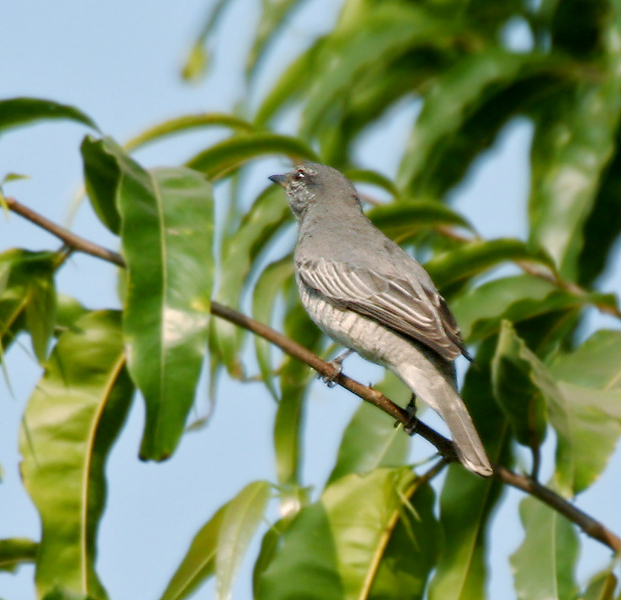 Black-headed Cuckoo-shrike Coracina melanoptera in Kinnerasani Wildlife Sanctuary, Andhra Pradesh, India.